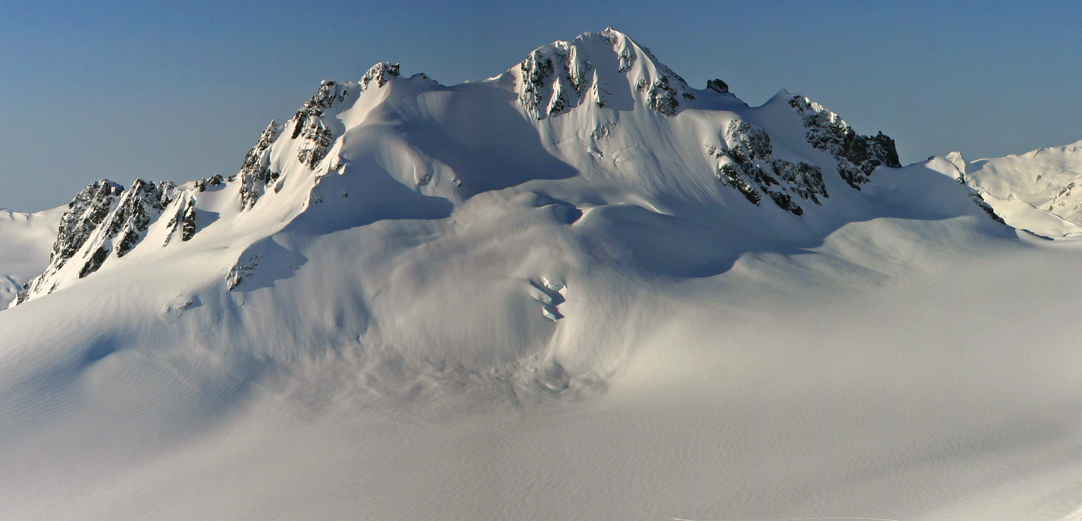 Garibaldi mountain landscape